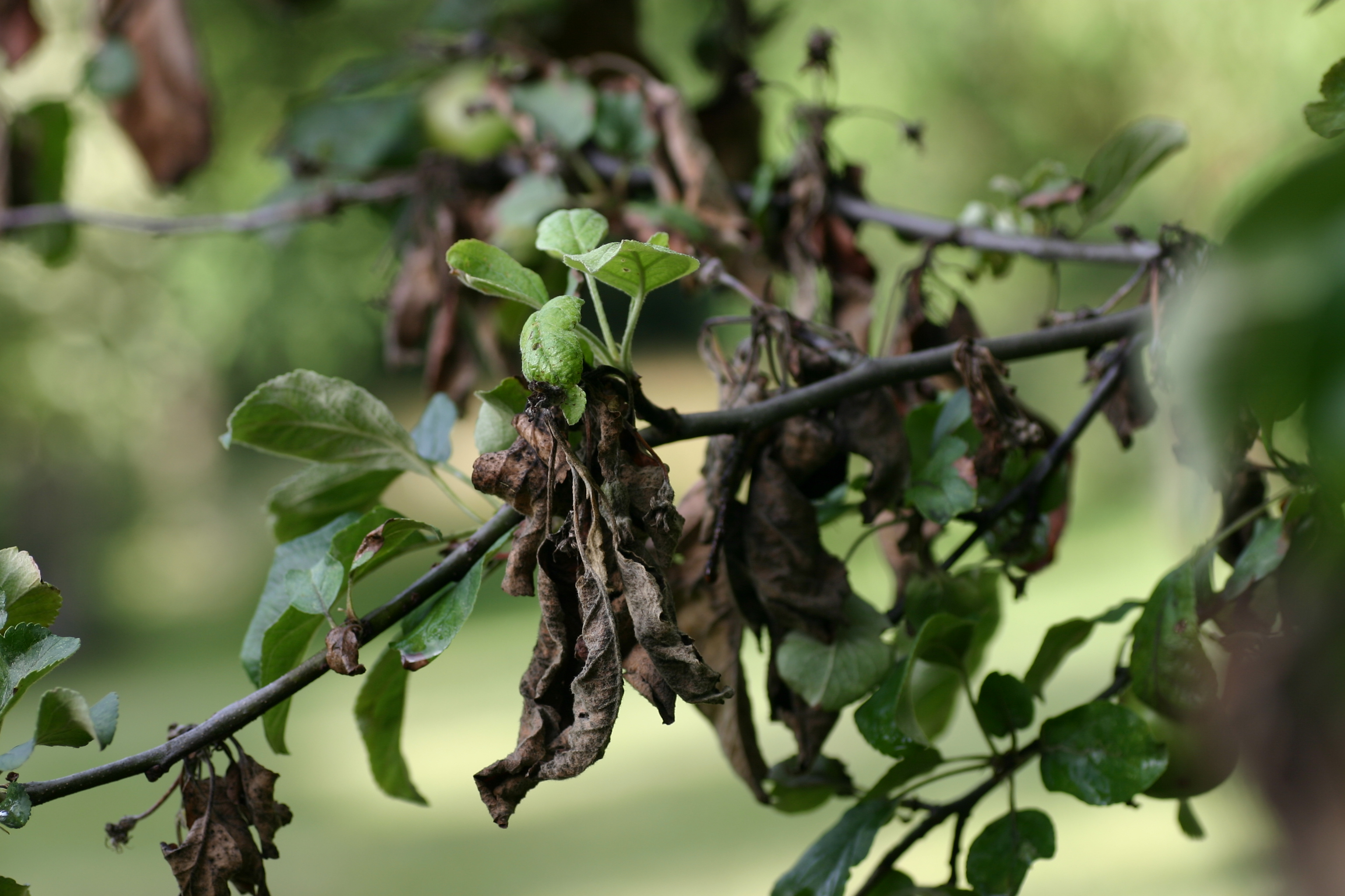 Apple tree with fire blight